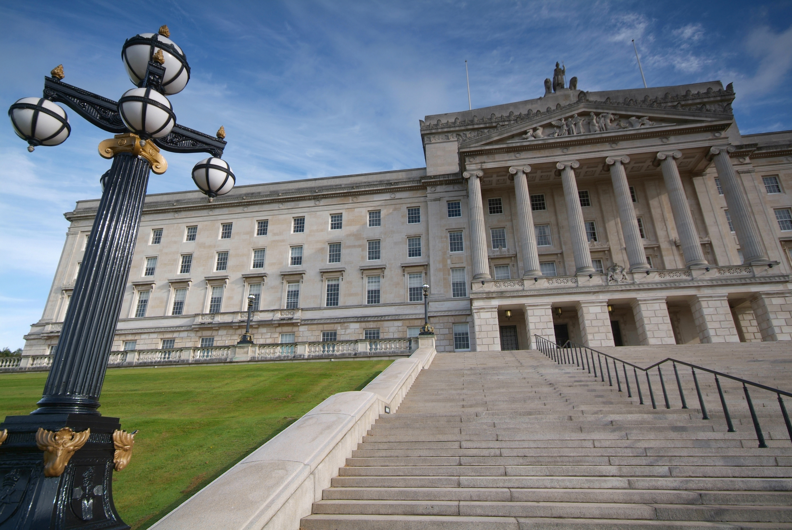 Belfast Stormont Parliament